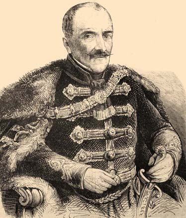 Count Imre Mikó de Hidvég